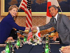 Hillary Rodham Clinton, Secretary of State, talked with Hirofumi Nakasone, Minister for Foreign Affairs, at Iikura House in Minato Ward, Tōkyō Metropolis, on February 17, 2009.